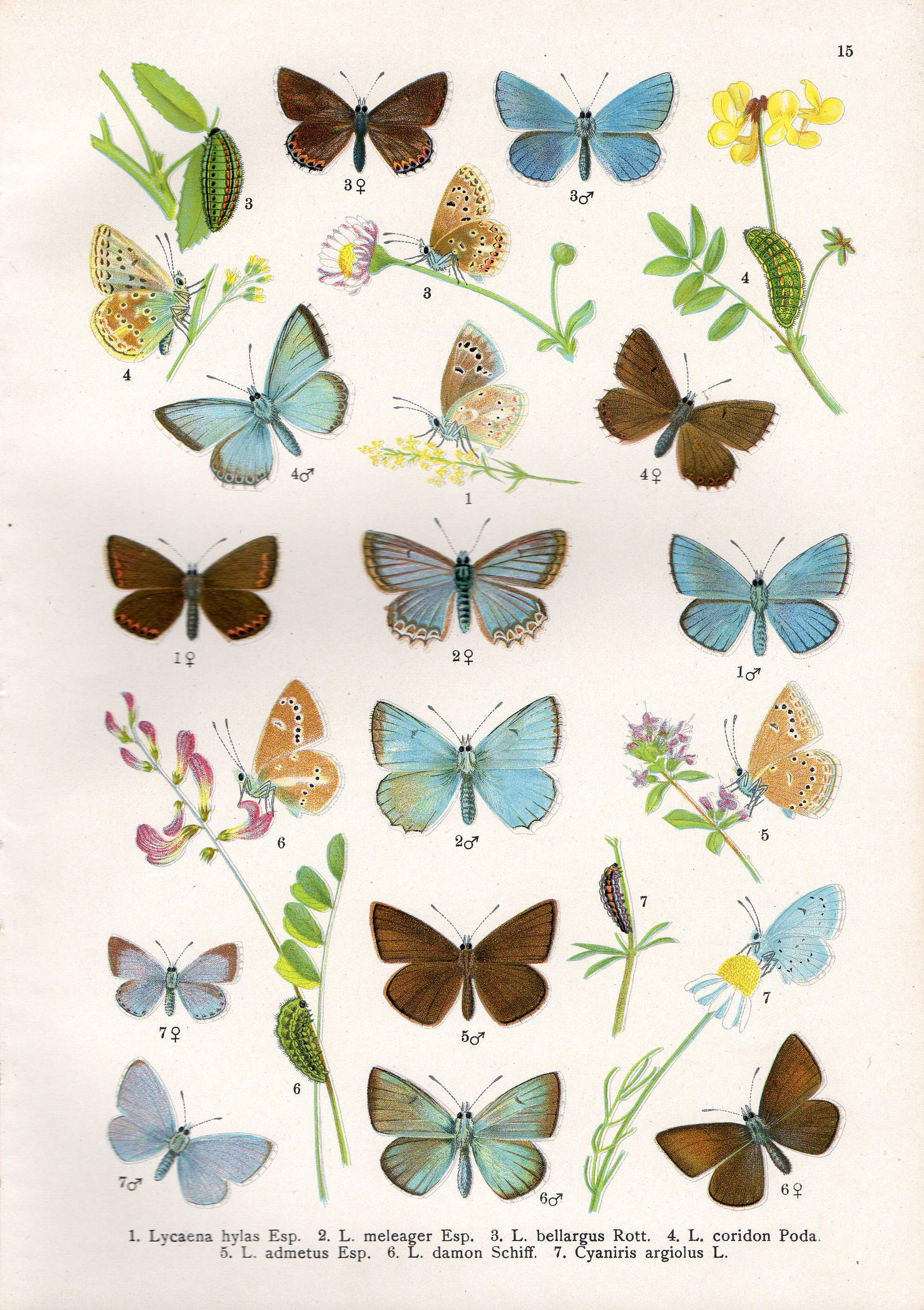 Table of Lepidoptera. From Joukl (1862-1910): "Motýlové a housenky střední Evropy" 1910.